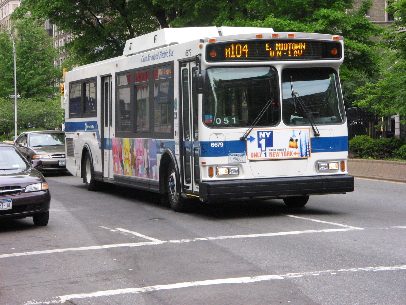 NYC Transit hybrid #6679 operates on the M104 line.